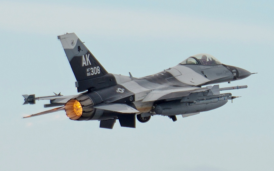 A U.S. Air Force F-16 Fighting Falcon fighter aircraft assigned to the 18th Aggressor Squadron takes off from Eielson Air Force Base, Alaska